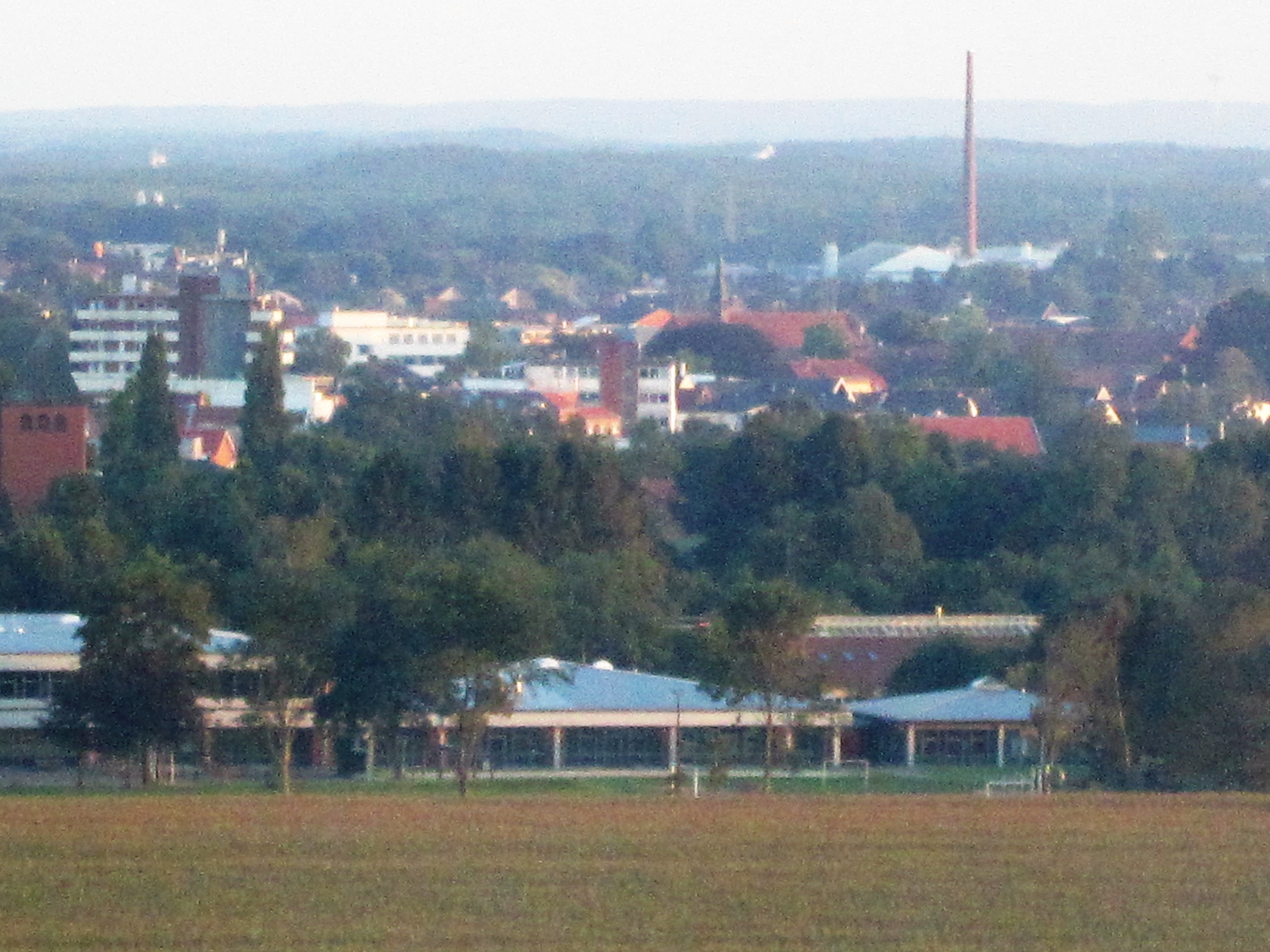 View across Vechta from the ferris wheel at Stoppelmarkt in 2016